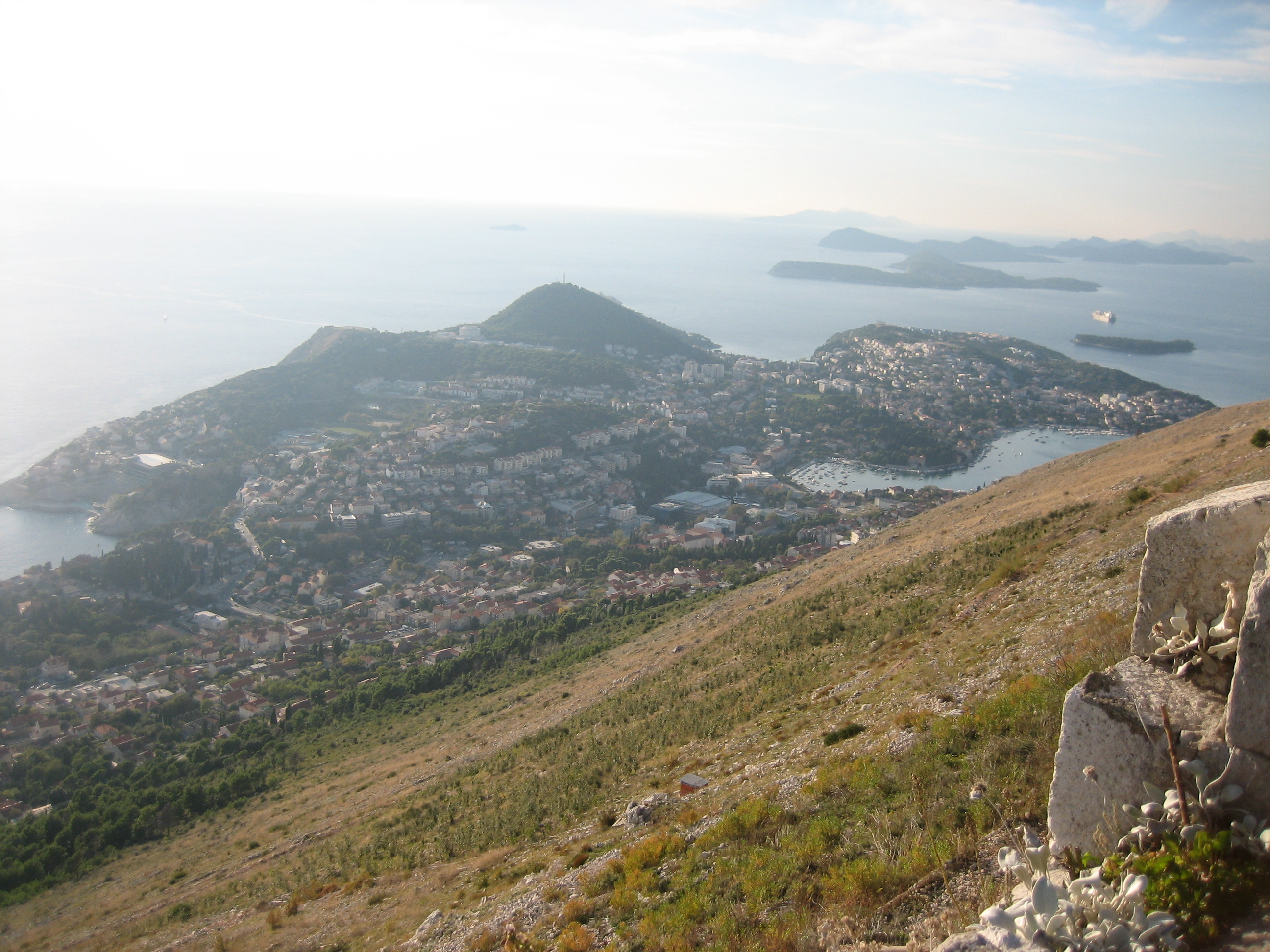 Lapad - peninsula, part of Dubrovnik